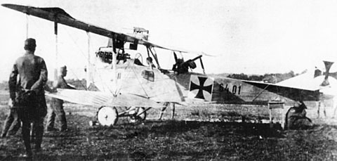 Hansa-Brandenburg C.I(U) (series 64) (UFAG made)